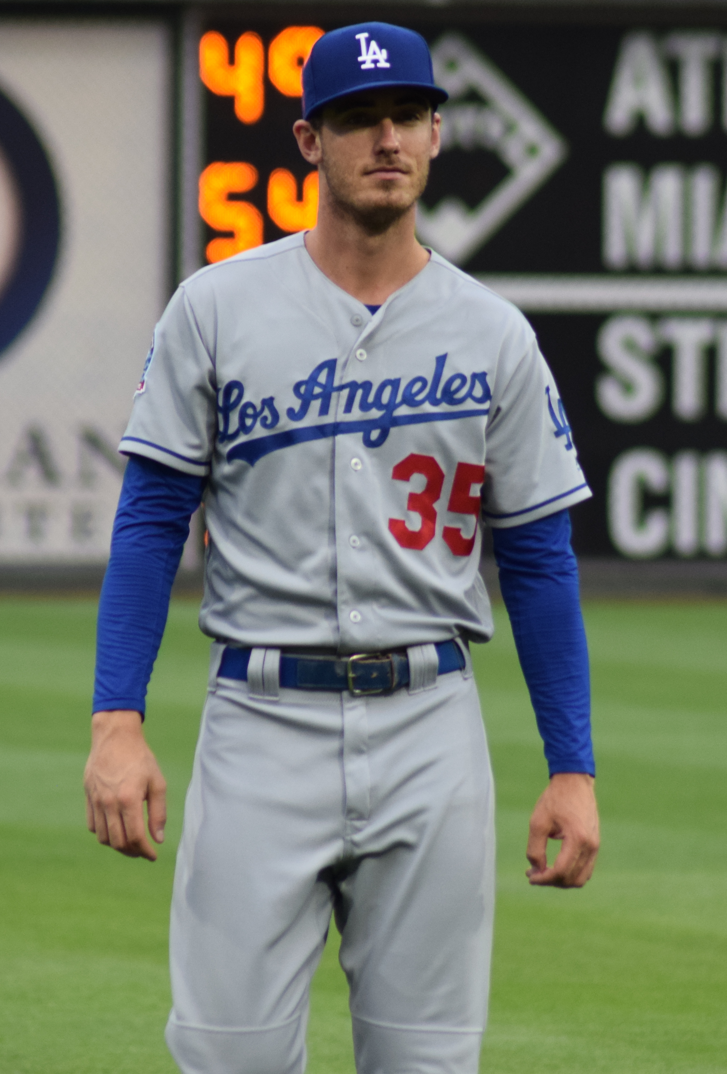 Los Angeles Dodgers outfielder Cody Bellinger